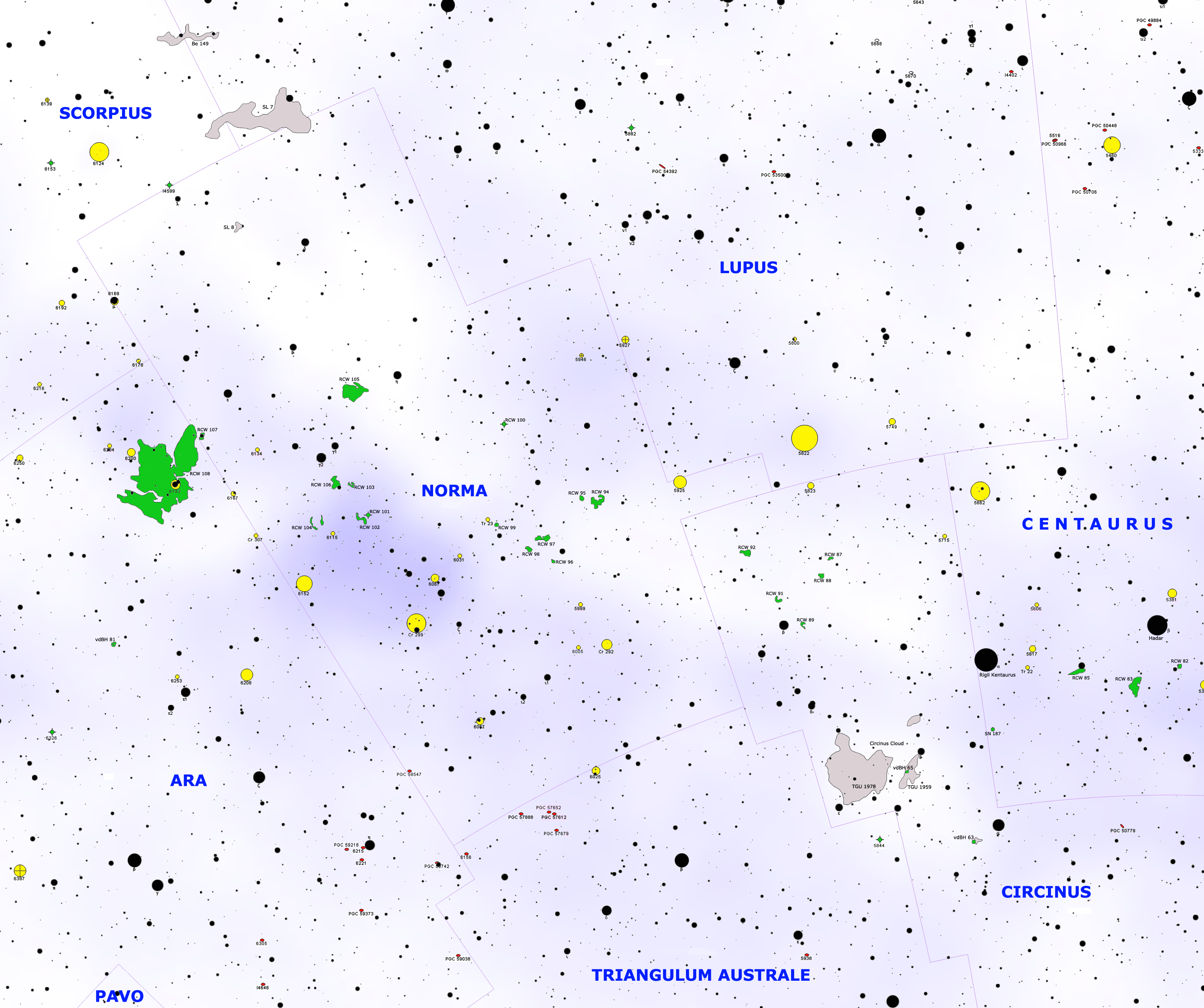 Detailed map of the Circinus-Norma region of southern Milky Way; the map shows open clusters (in yellow) and the ionized region (in green). Dark cloud are plotted in grey.